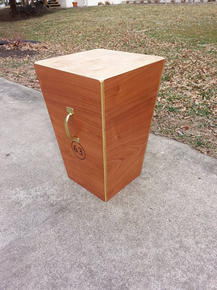 Cuban cajon: Mahogany Supertumba by 63rd Street Percussion